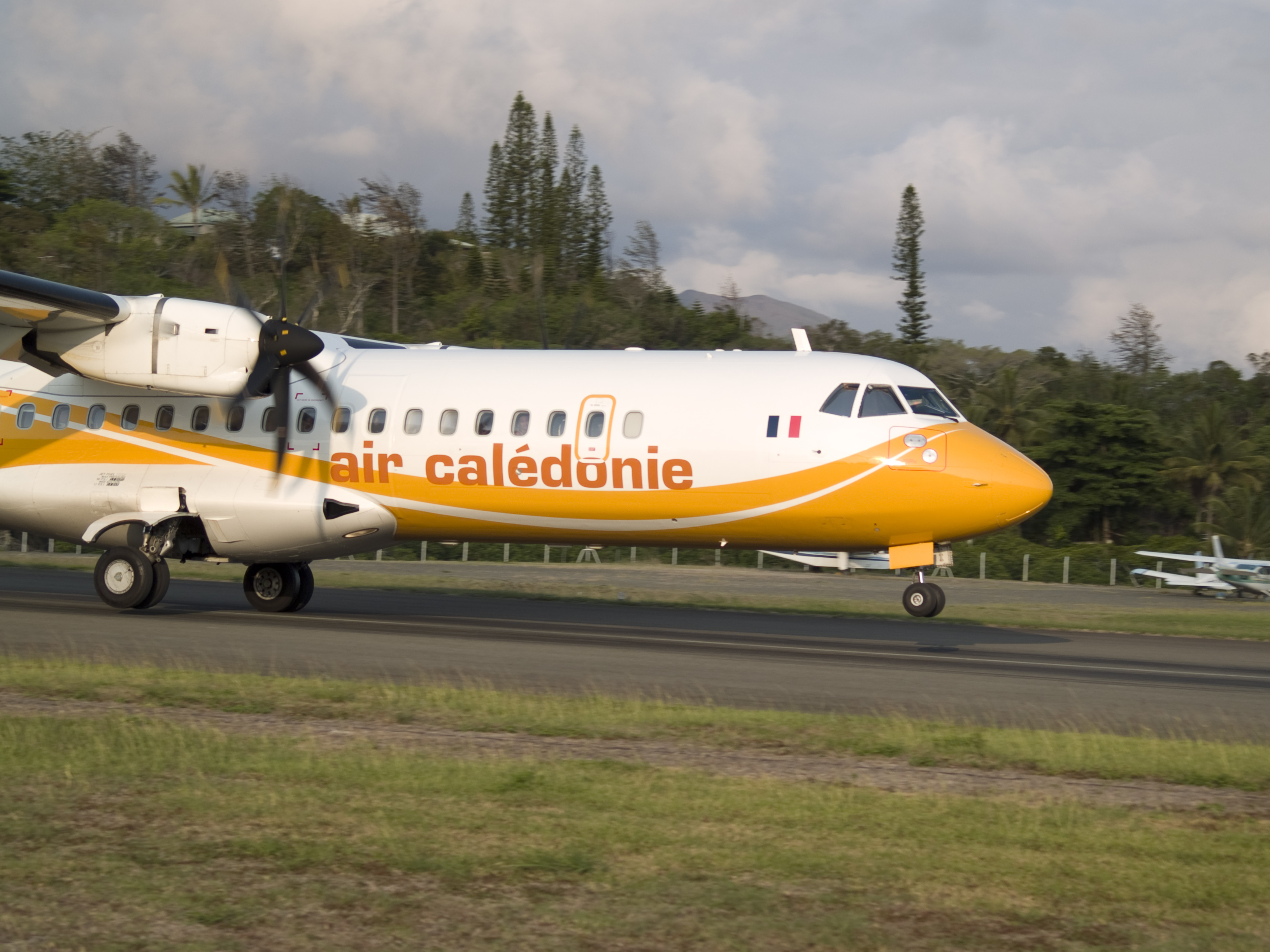 This ATR 72-500 is registred as F-OIPN, the PN is for "Province Nord". There is three provinces in New Caledonia : north, south and island. That's why the three ATR from Air Calédonie are registered as F-OIPI, F-OIPN and F-OIPS. Photo taken at Nouméa Magenta Airport (IATA: GEA).